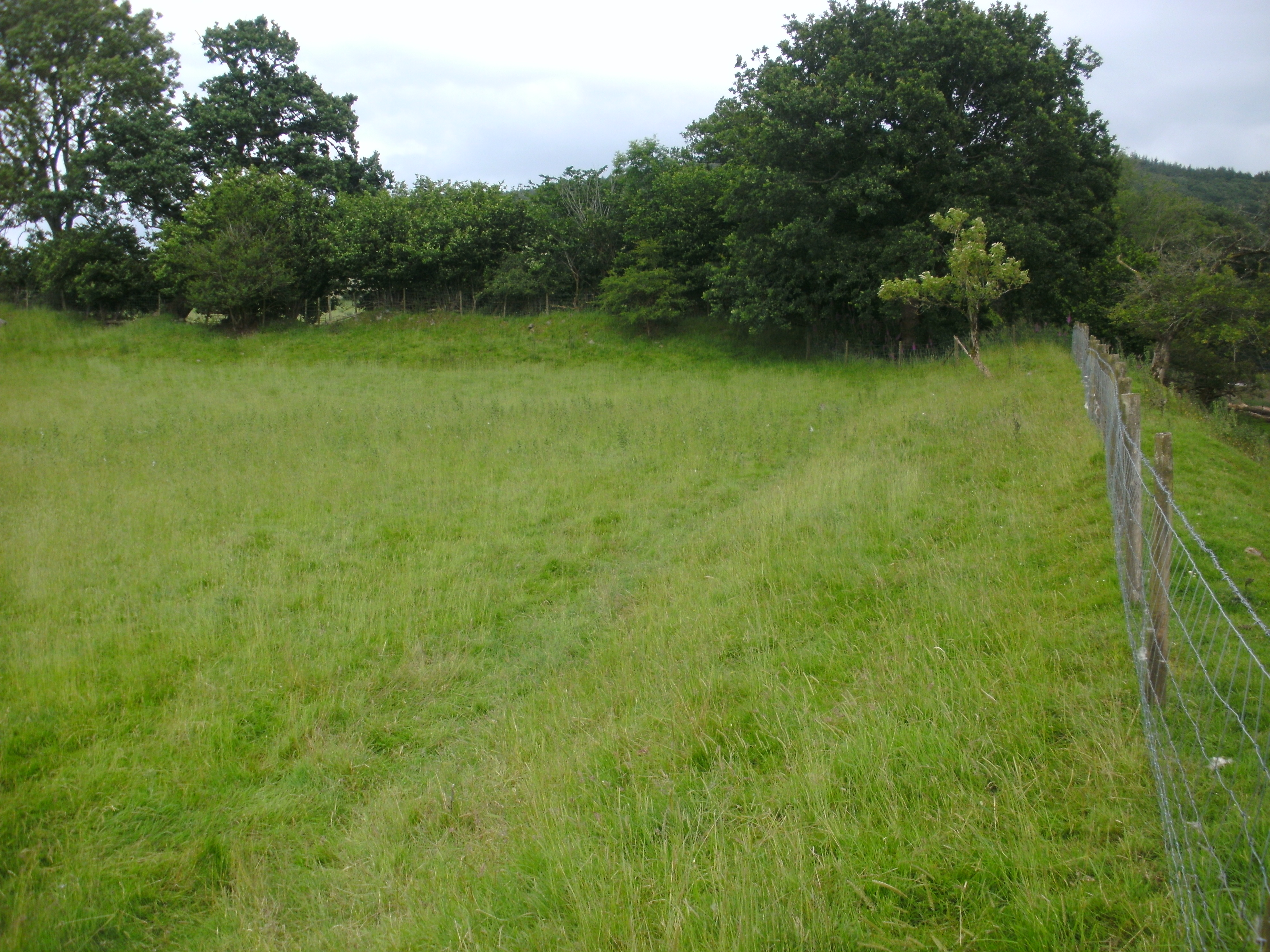 Y Gaer (ancient Roman fort) near Brecon, Powys, Wales: looking along the south wall towards the fort's south-east corner